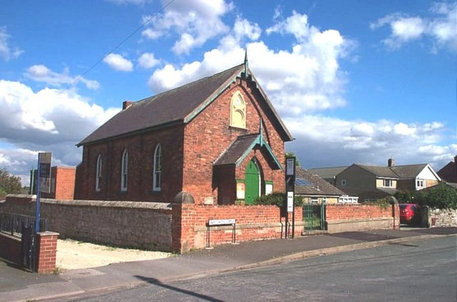 Cridling Stubbs Community Centre. Formerly a Chapel, now a community centre.